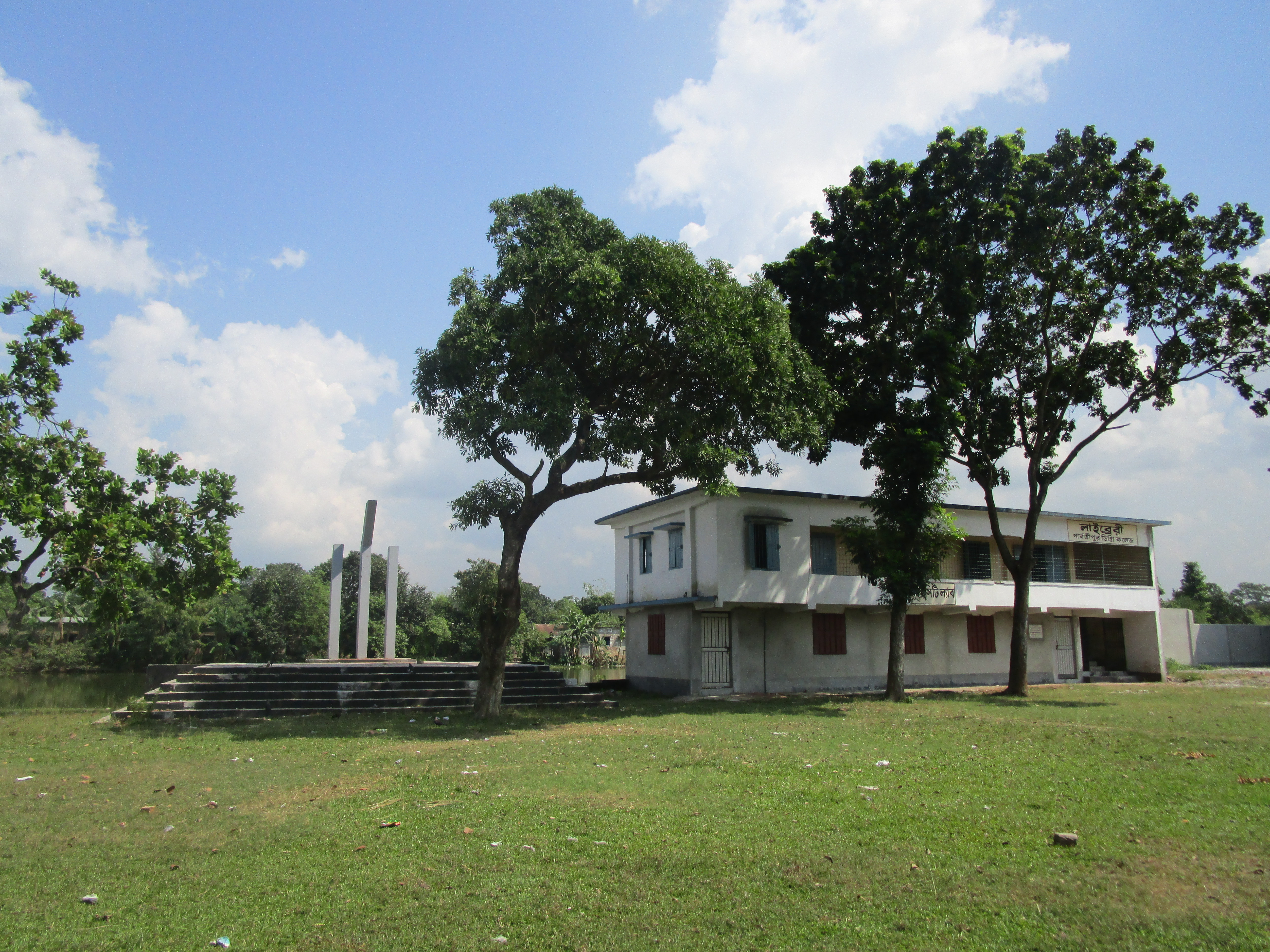 Parbatipur Degree College at Parbatipur Upazila.